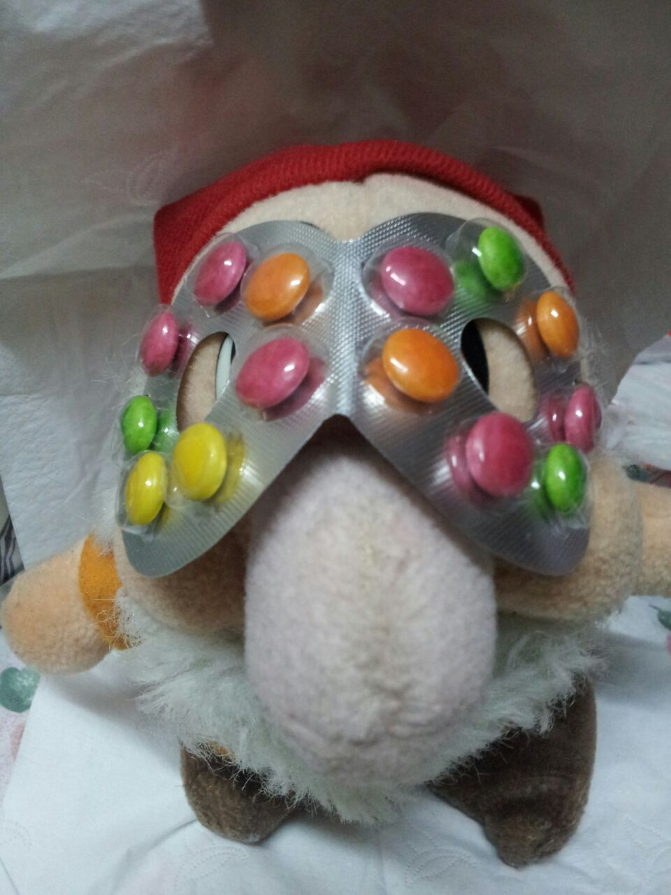 Taditional Candy 3